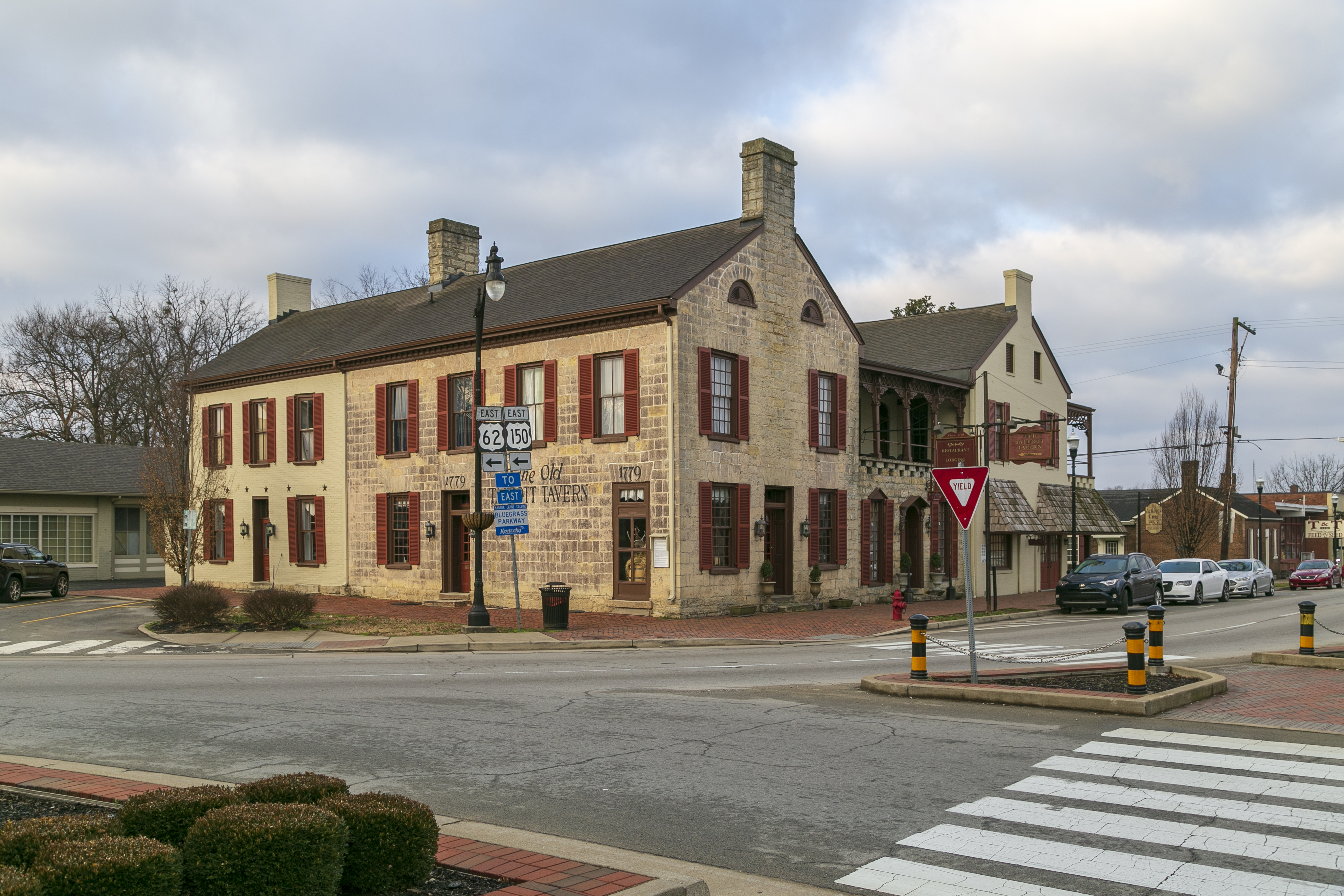 Oblique view of the National Register-listed Old Talbott Tavern, supposedly built in 1779 in Bardstown, Kentucky.